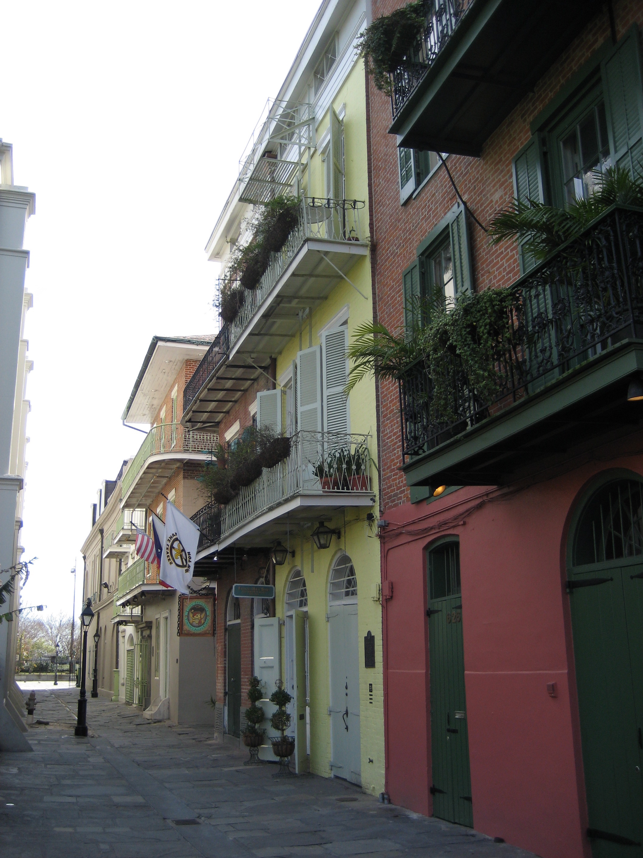 French Quarter, New Orleans. Pirate's Alley; yellow house formerly residence of writer WIlliam Faulkner